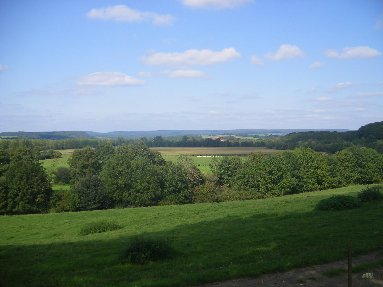 Landscape between Pont-a-Bar and Sedan (commune Villers-sur-Bar)